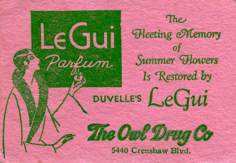 Advertising card for Le Gui perfume given out by Owl Drugs. This is a blotter-type paper and was probably scented with the perfume and given to ladies to try to get them to buy the perfume. The Crenshaw address was one of the Owl Drug stores in Los Angeles.